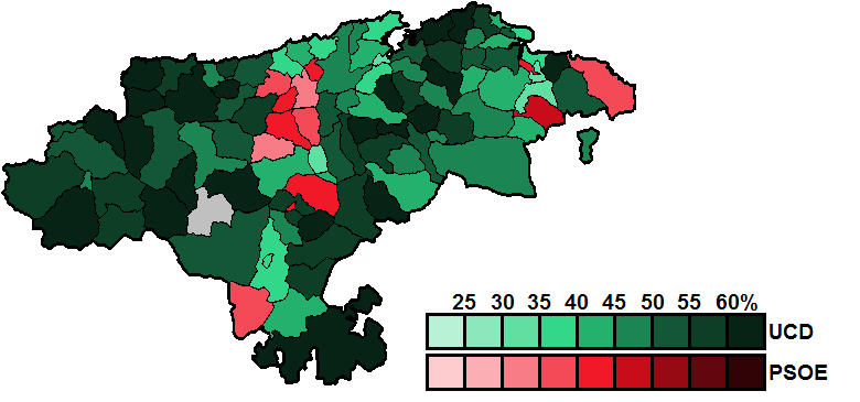 Most-voted party in Cantabria municipalities, showing vote share obtained, in the Spanish general election, 1977.